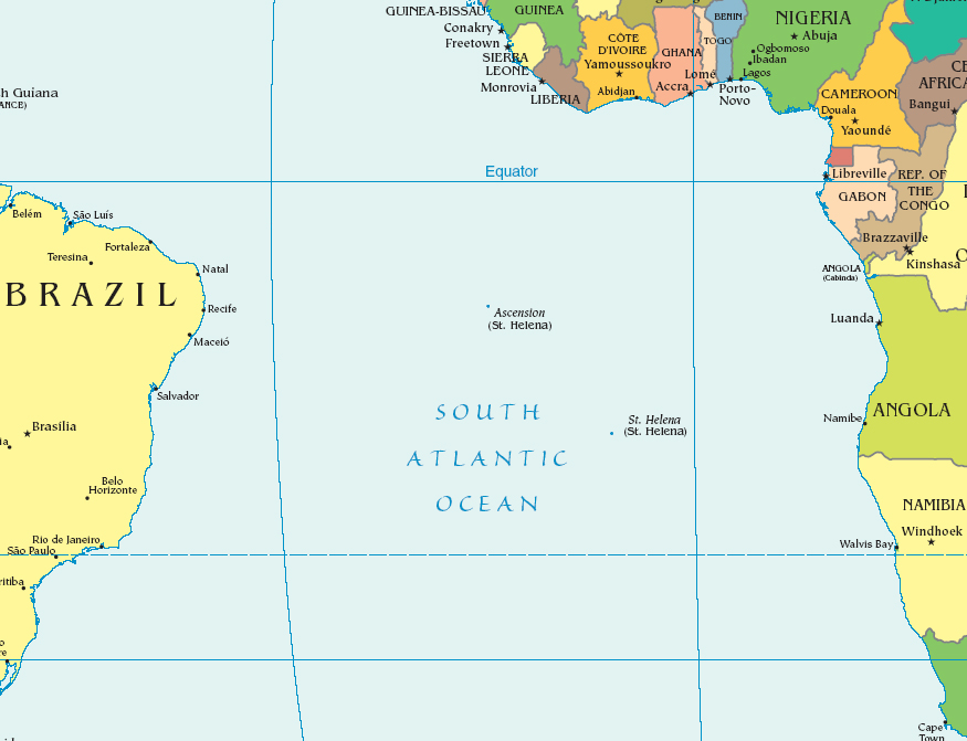 A detailed location map of Ascension Island, cropped from a larger map, courtesy of the CIA World Factbook